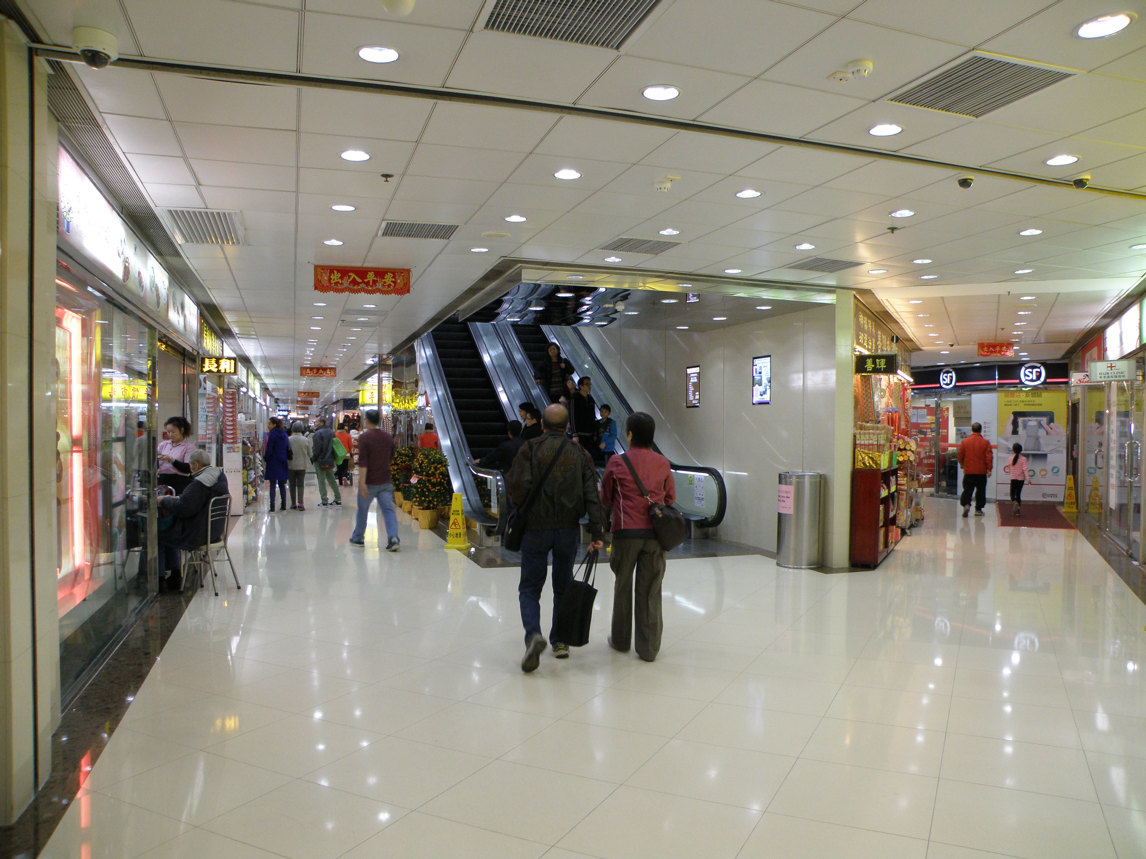 Richland Garden in Tuen Mun, Hong Kong.